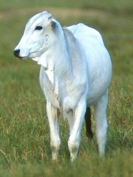 Nelore beef cattle in Itapebi, Bahia, Brazil